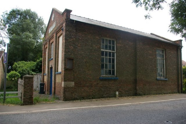 Side view of Bethesda chapel In very good condition.